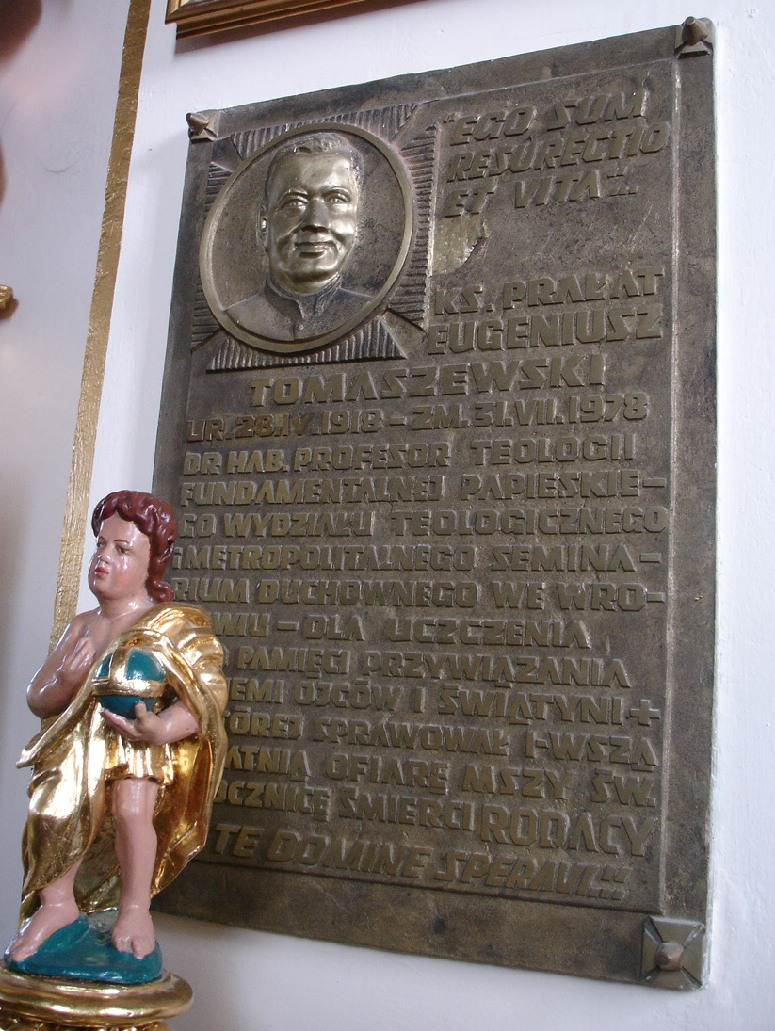 plague in church, Nowotaniec